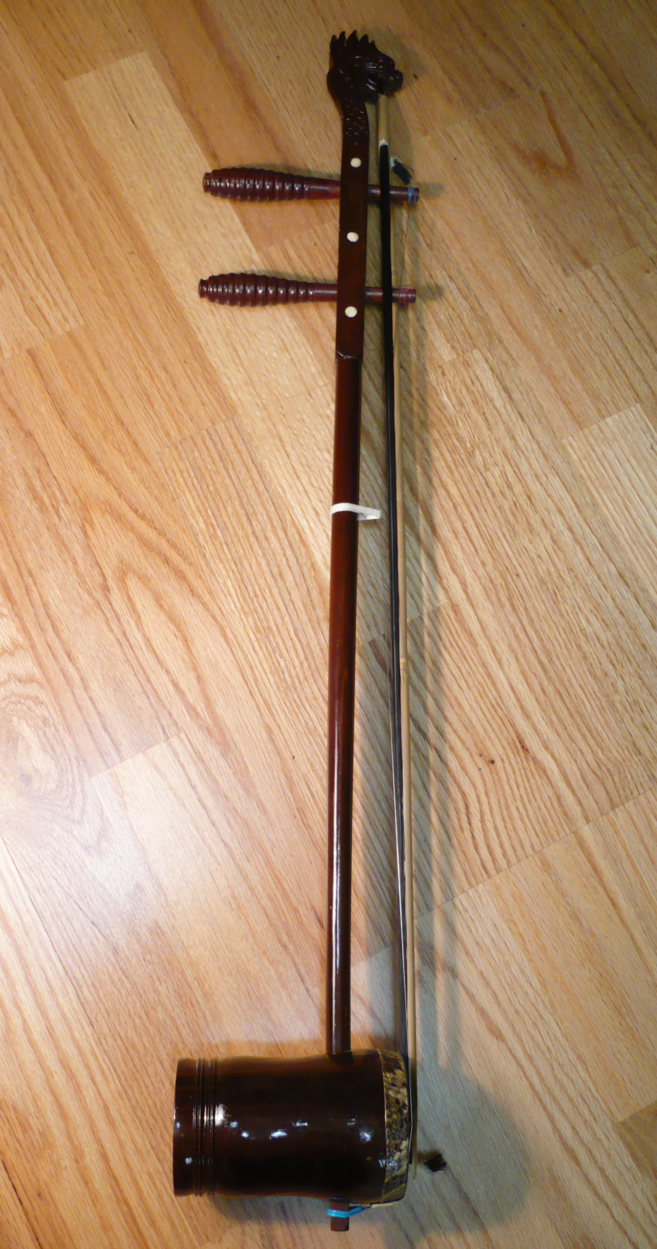 Side view of a tihu (two-stringed vertical fiddle) used in Chaozhou music. The tihu was purchased in Singapore in approximately 2000. The tihu has a bamboo bow with black horsehair, steel strings, and a rectangular bamboo bridge.